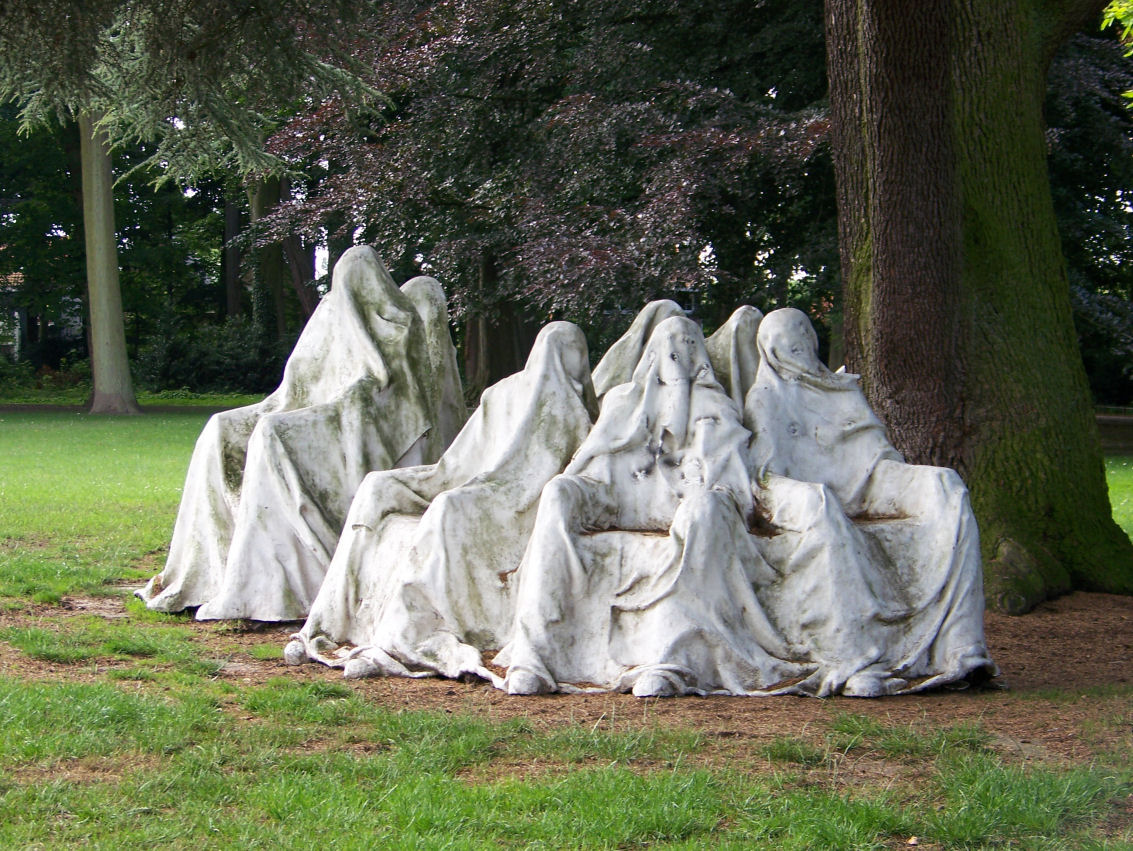 Sculpture in Oosterhout, North Brabant (Netherlands).